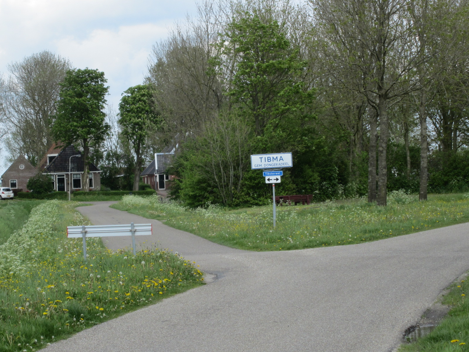 Hamlet Tibma, county Friesland, The Netherlands.